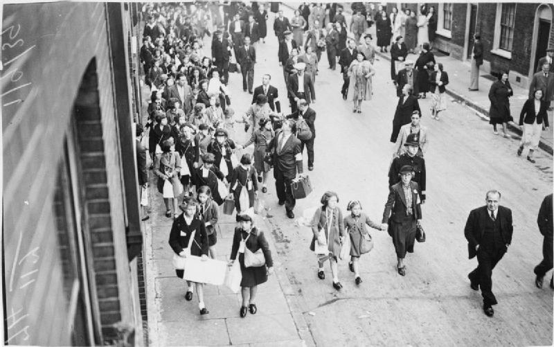 The Evacuation Scheme in Britain, 1939 An early start to evacuation is made by children of Myrdle School in Stepney. The children assembled at school at 5am on Friday 1 September 1939. This photograph shows evacuees and adults walking along a street carrying suitacases and gas mask boxes. The adults are wearing arm bands which identify them as volunteer marshals.